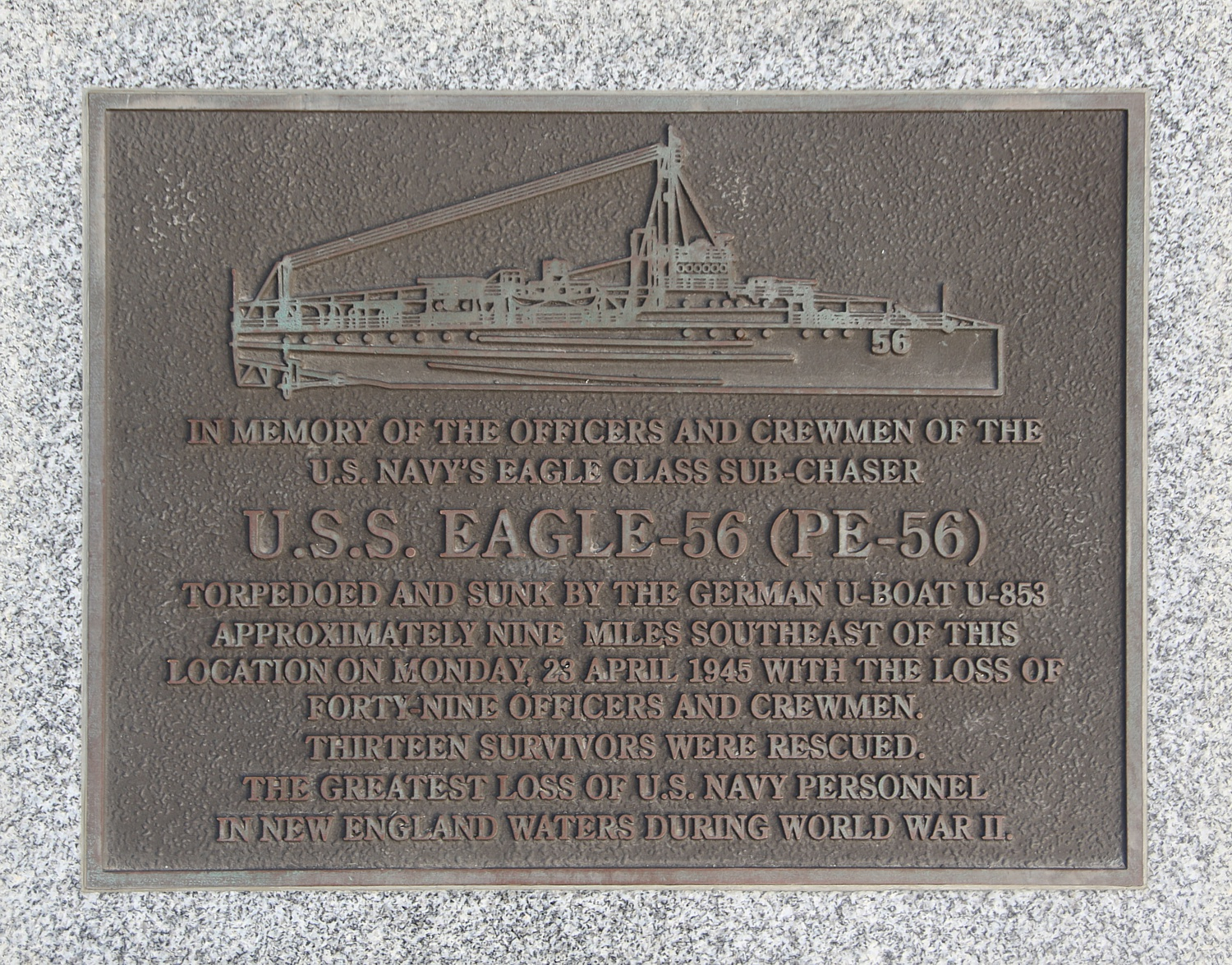 A plaque on the grounds of the Portland Head Light at Cape Elizabeth, Maine, describes the loss of U.S.S. Eagle-56.